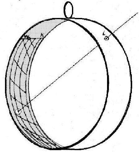 A kind of solar watch used in Europe in XVII century.